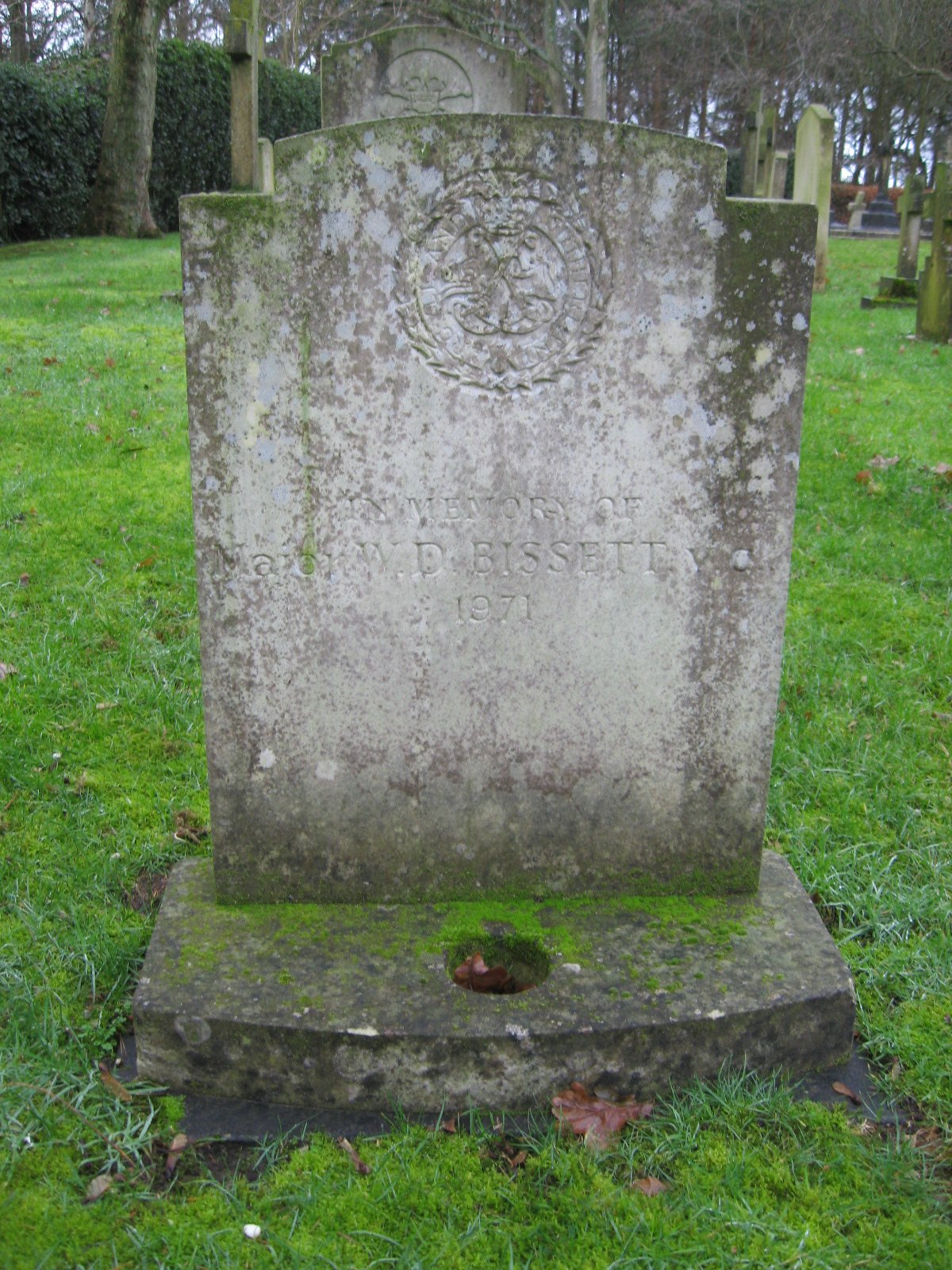 Photograph taken by me in Aldershot Military Cemetery on December 26 2007